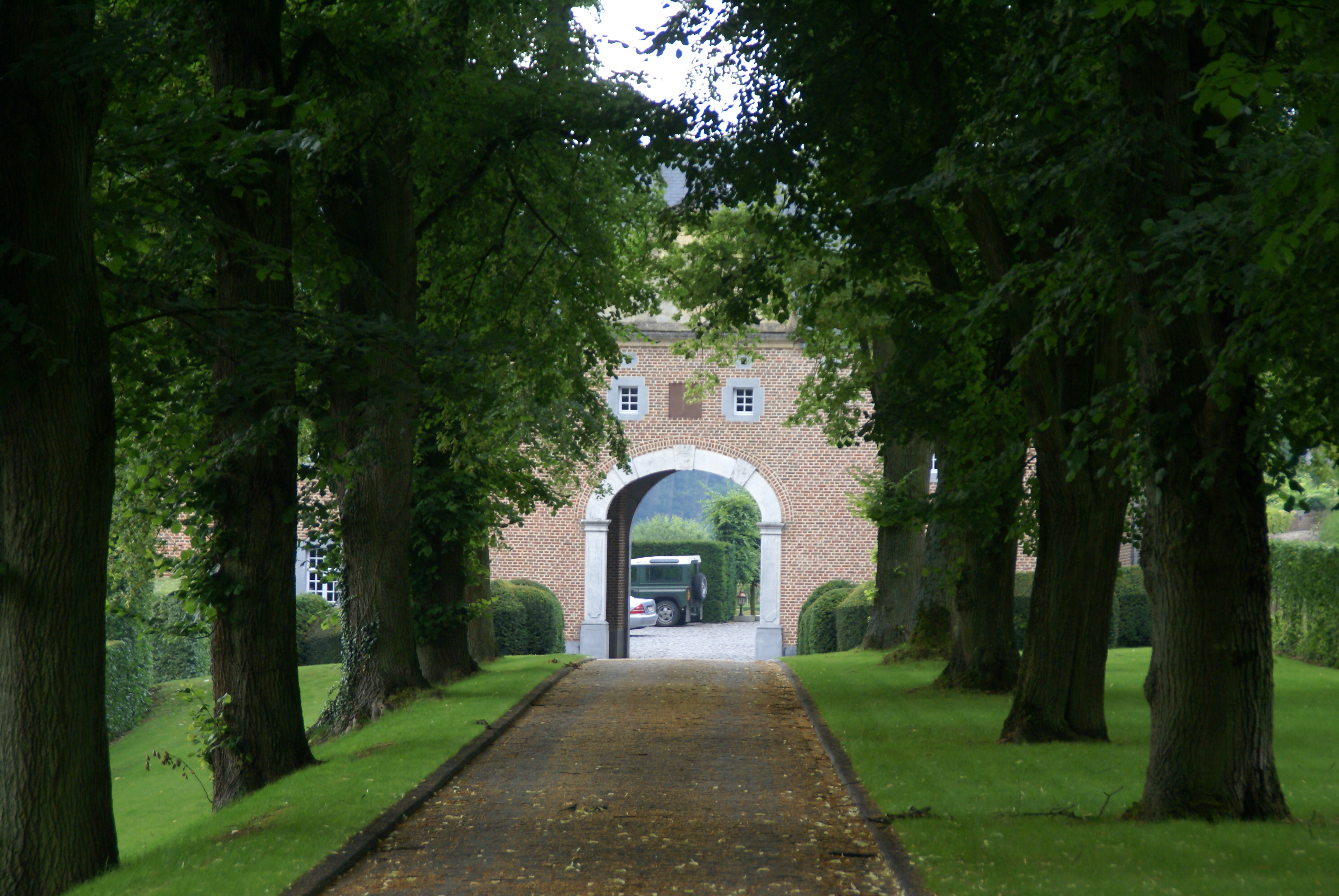 Teuven (Belgium): Entry of Sinnich Abbey